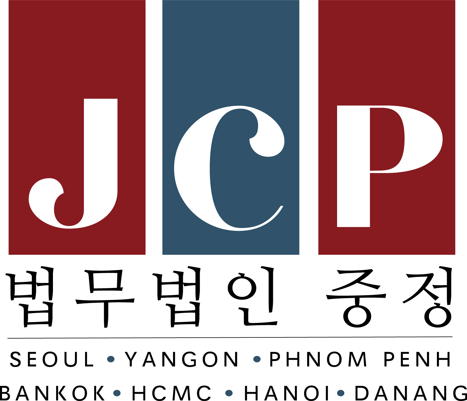 Logo of JC Partners Asean Practice Group